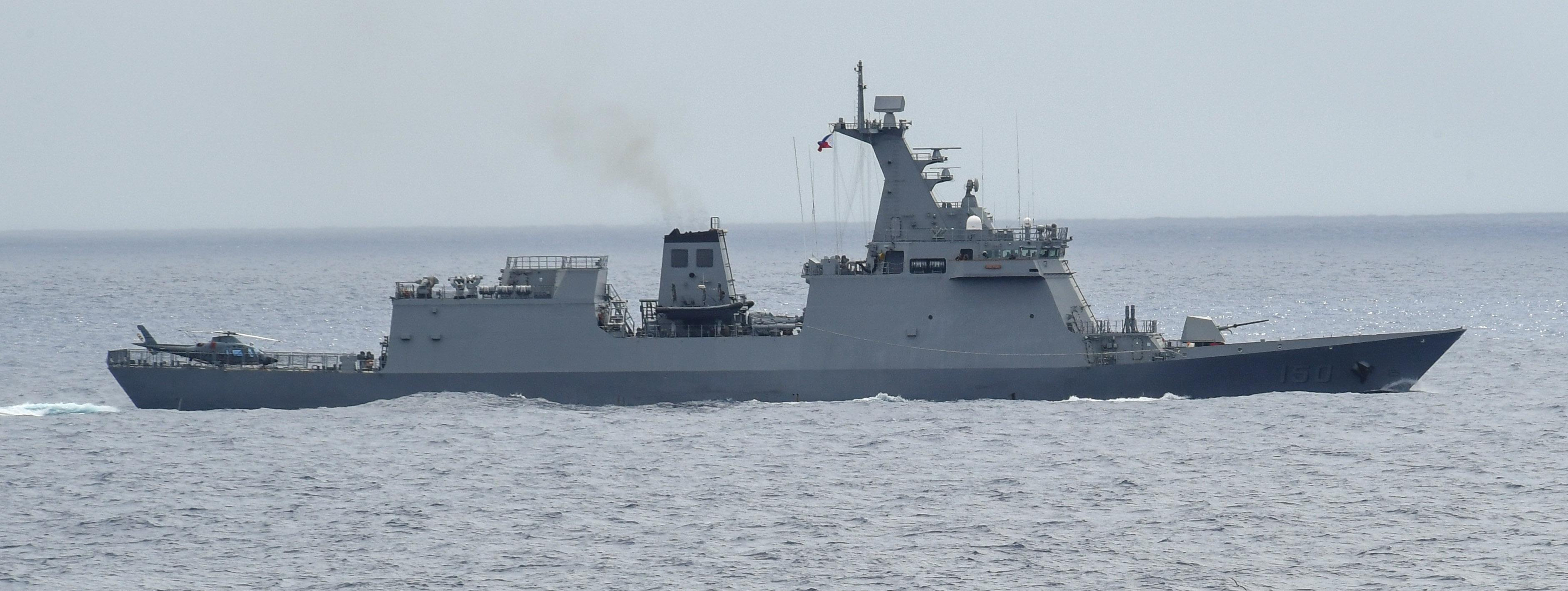 200820-N-TT059-2393 PACIFIC OCEAN (Aug. 20, 2020) Republic of the Philippines Navy ship BRP Jose Rizal (FF 150) participates in a tactical maneuvering drill with U.S. Coast Guard ship USCGC Munro (WMSL 755) and U.S. Navy guided-missile cruiser USS Lake Erie (CG 70) during exercise Rim of the Pacific (RIMPAC) 2020.